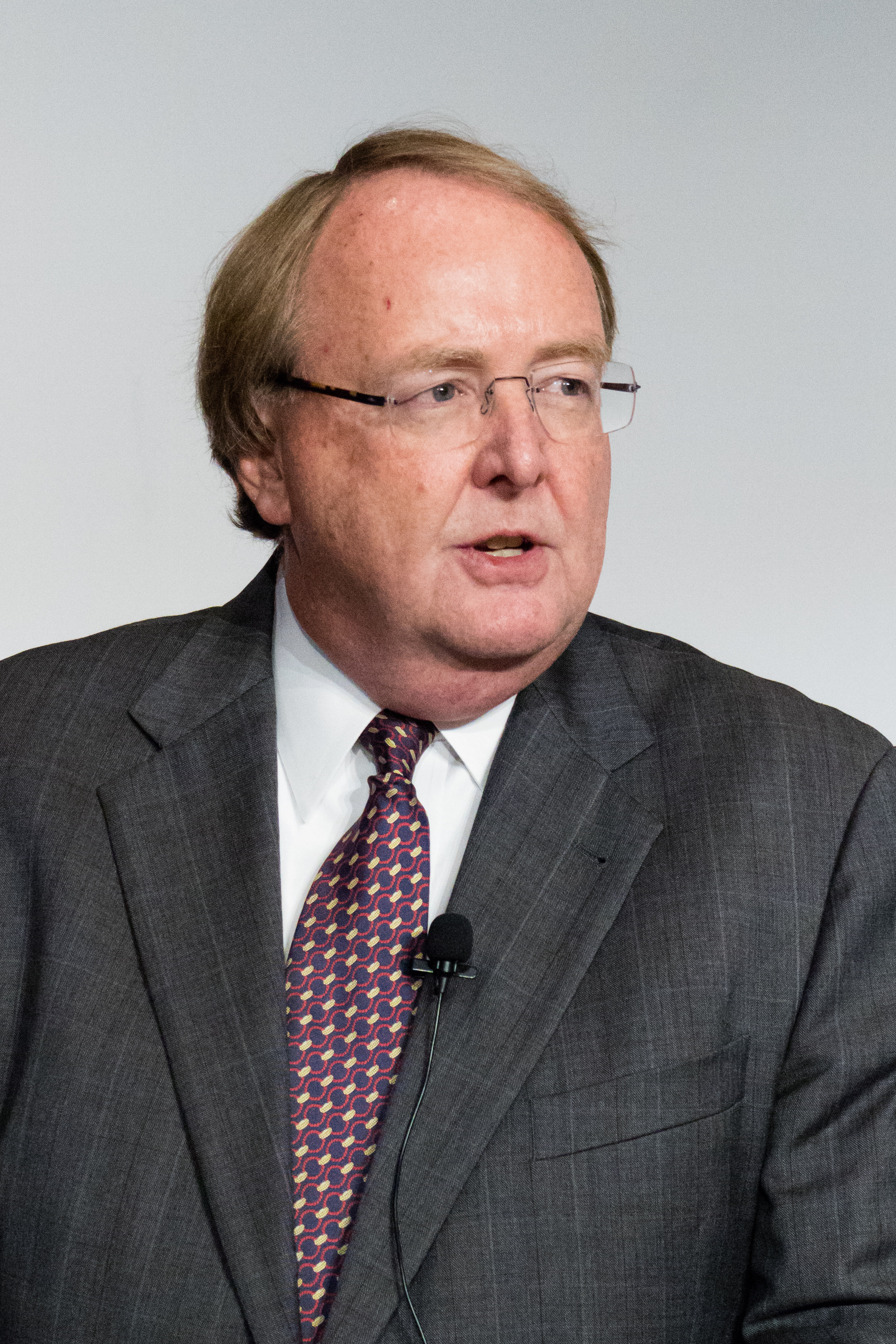 Bob Jerry delivers remarks by University of Chicago Law School Professor Geoffrey R. Stone at the MU Law School Price Sloan Symposium for Media, Ethics and Law